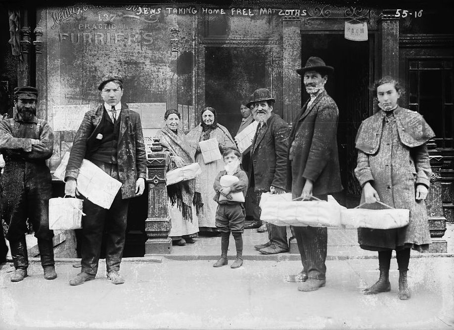 Poor Jews taking home free matzohs, New York.